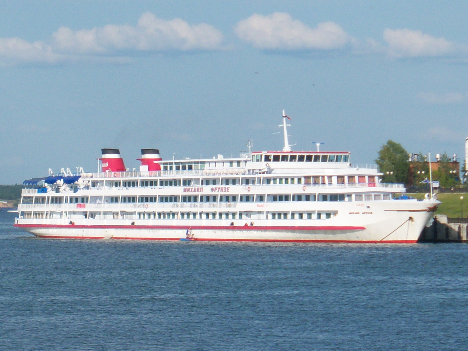 The passenger MS Mikhail Frunze of Project 92-016 class at the landing stage of Cheboksary city. The ship is named in honour of Soviet military and state leader Mikhail Frunze.